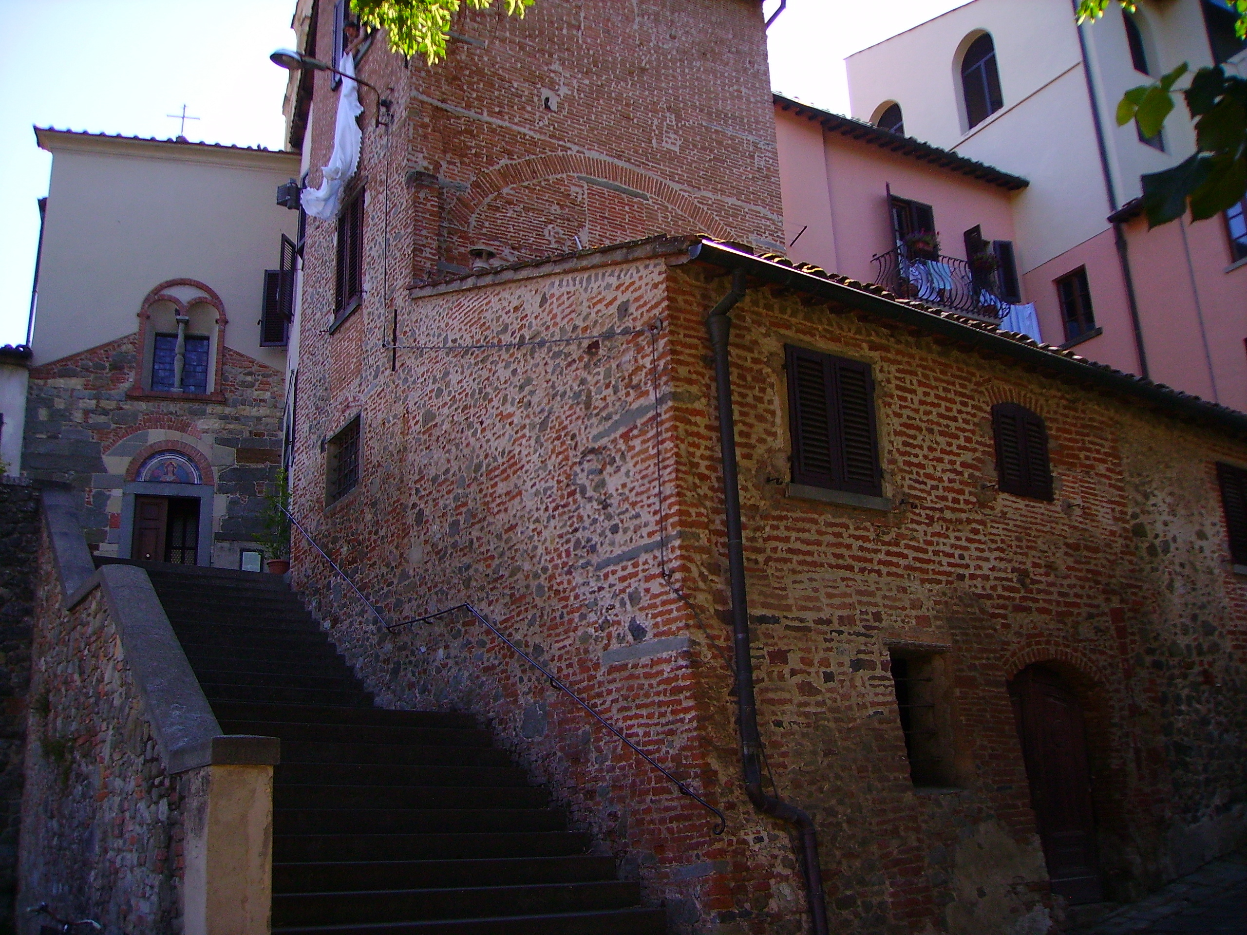 The Monastery of La Ginestra